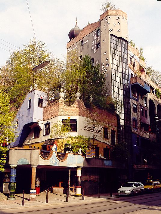 Austria, Vienna, Hundertwasserhaus